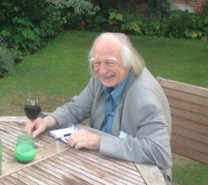 This photo was taken by Adriano Henney during a meeting on multi-scale systems biology following the IUPS 2013 Congress Denis Noble